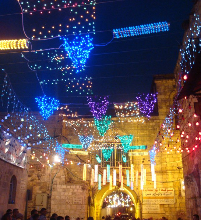 Old Jerusalem, Muslim Quarter, Lions's Gate street, The celebration inside the Old city of Jeruslem (Month of Ramadan)